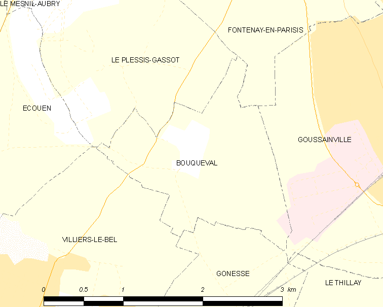 Map of French municipality Bouqueval